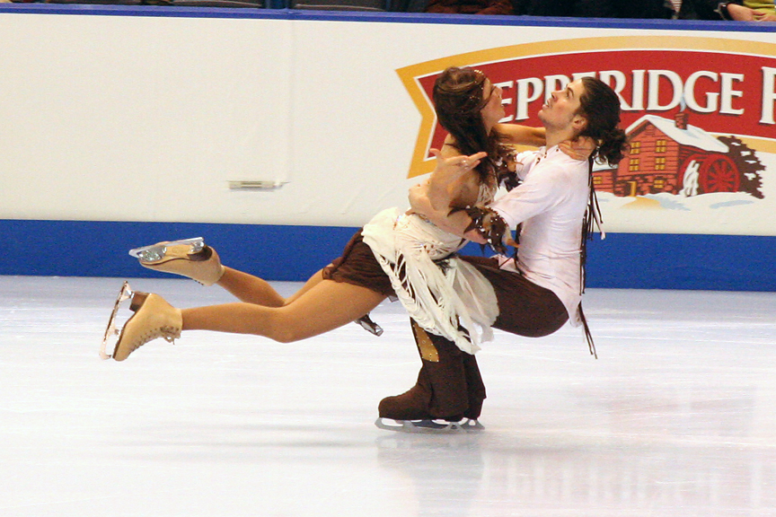 Sinead Kerr & John Kerr perform a lift at the 2006 Skate America.